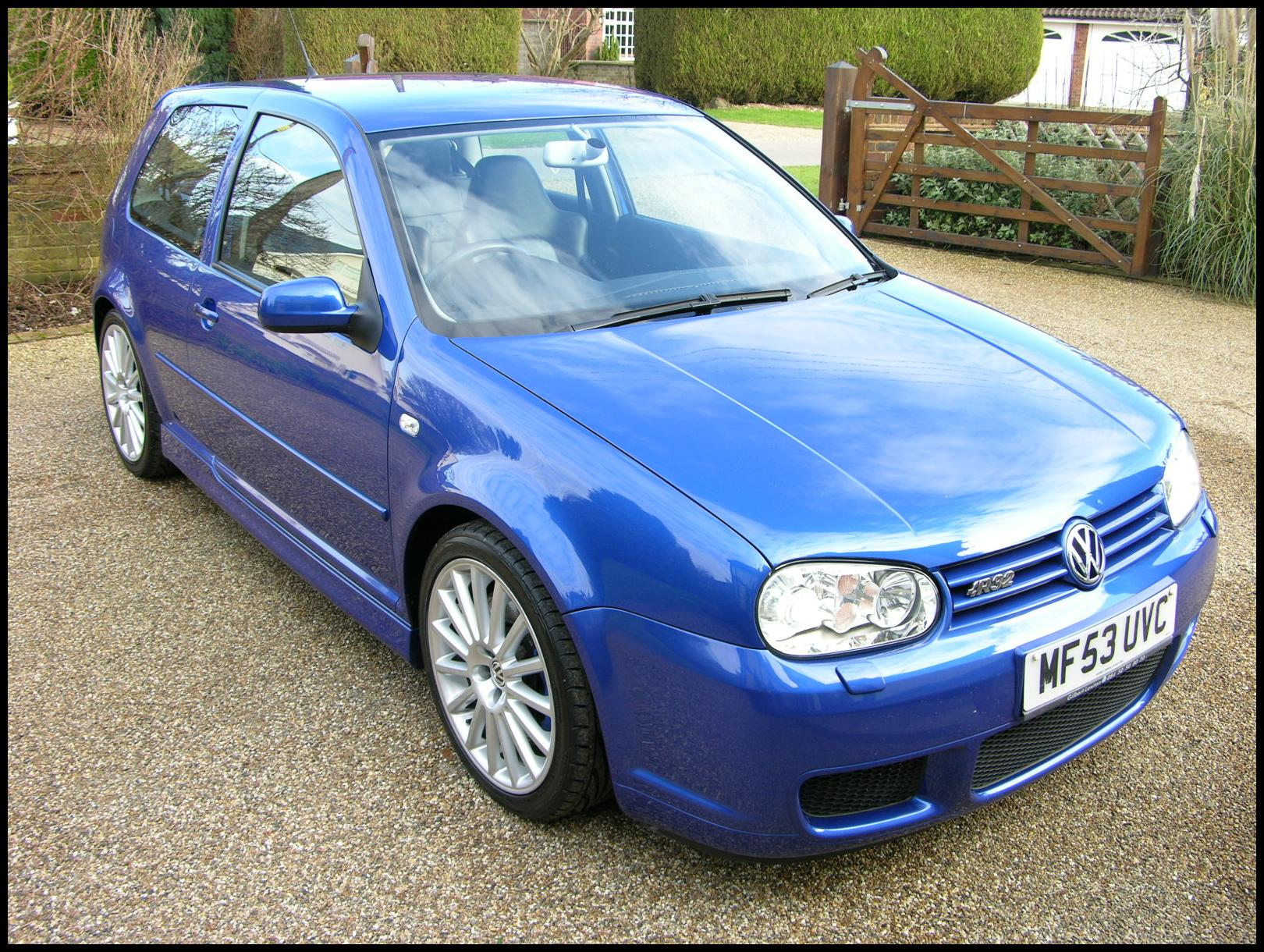 Volkswagen Golf Mk4 R32